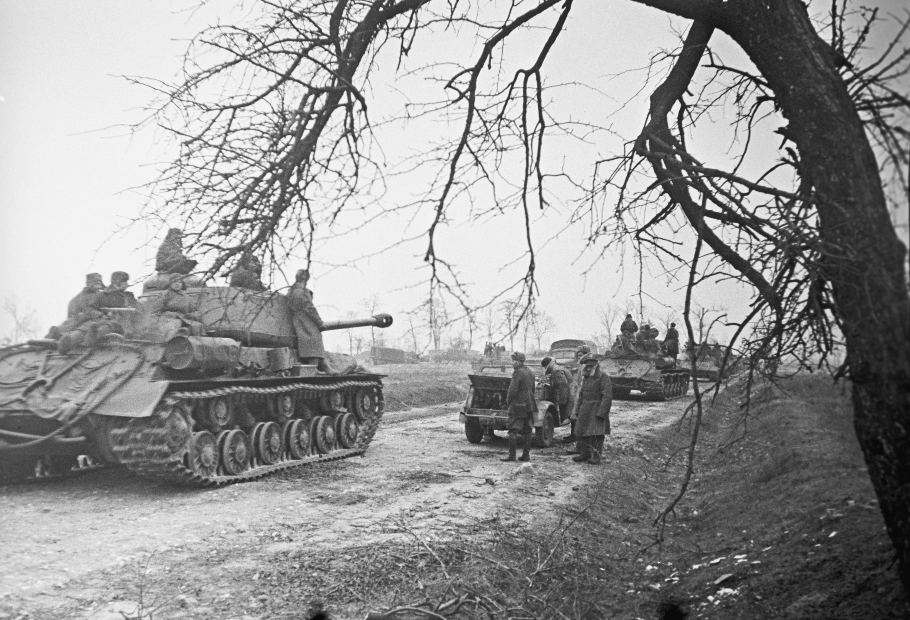 “Armored breakthrough at the Visla beachhead”. Armored breakthrough at the Visla beachhead. 1st Belorussian Front. The Great Patriotic War of 1941-1945.